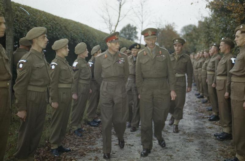 Hm King George Vi With the British Liberation Army in Holland, 13 October 1944 HM King George VI, accompanied by the Commander of the 2nd Army, Lieutenant General Sir Miles Dempsey, inspecting troops at General Dempsey's headquarters.